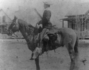 Photograph of U.S. Army officer and Medal of Honor recipient Cornelius C. Smith, with his favorite horse "Blue", in front of his quarters at Fort Wingate in the New Mexico Territory in 1895.